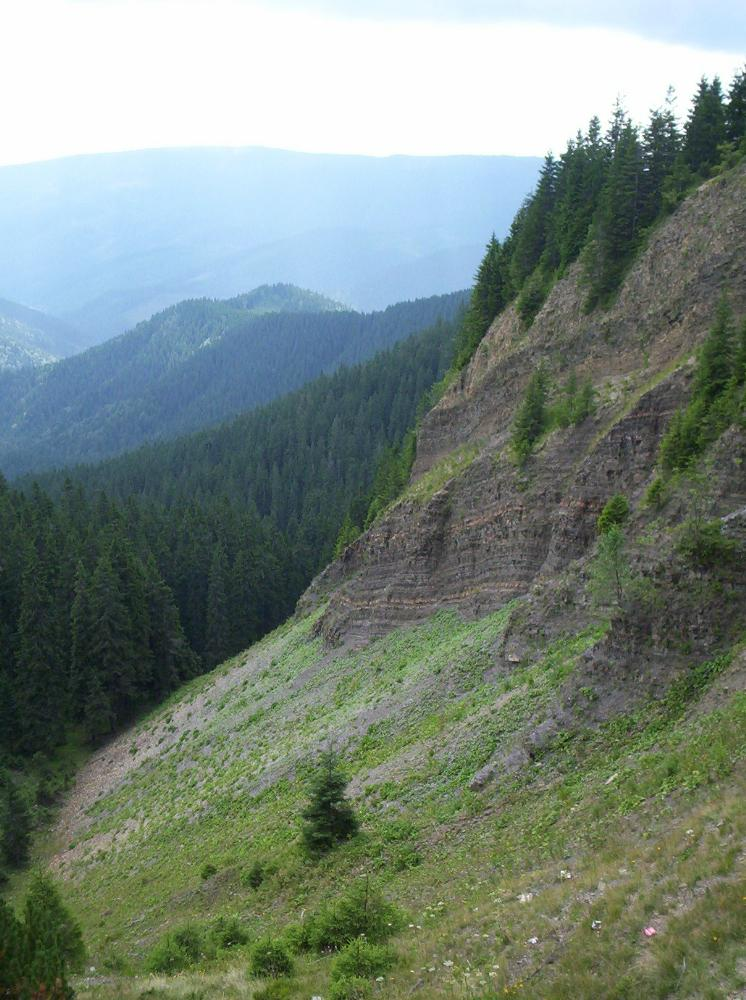 Hell.